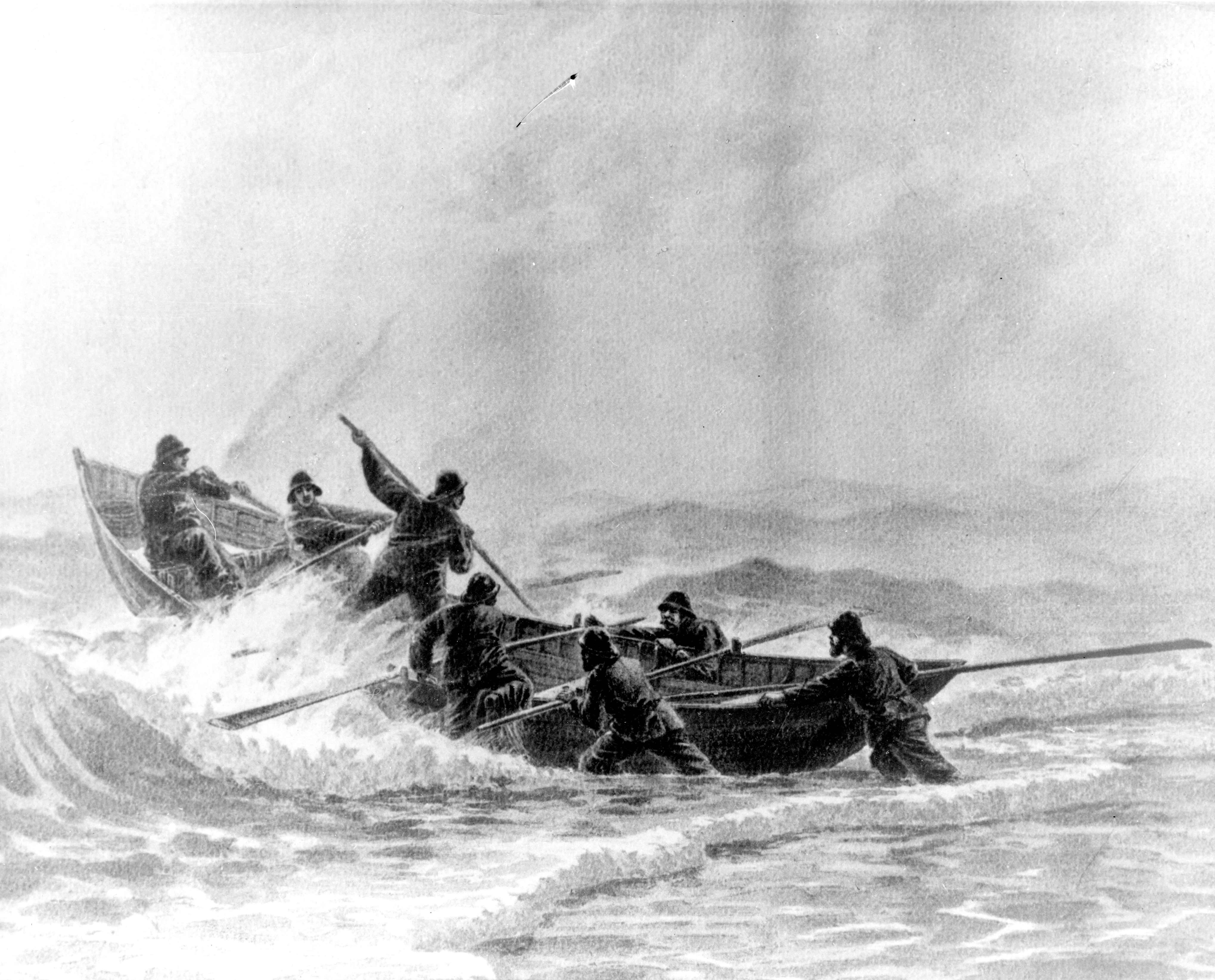 A Life-Saving crew launches a surfboat through heavy surf. Courtesy of U.S. Coast Guard Historian’s office.